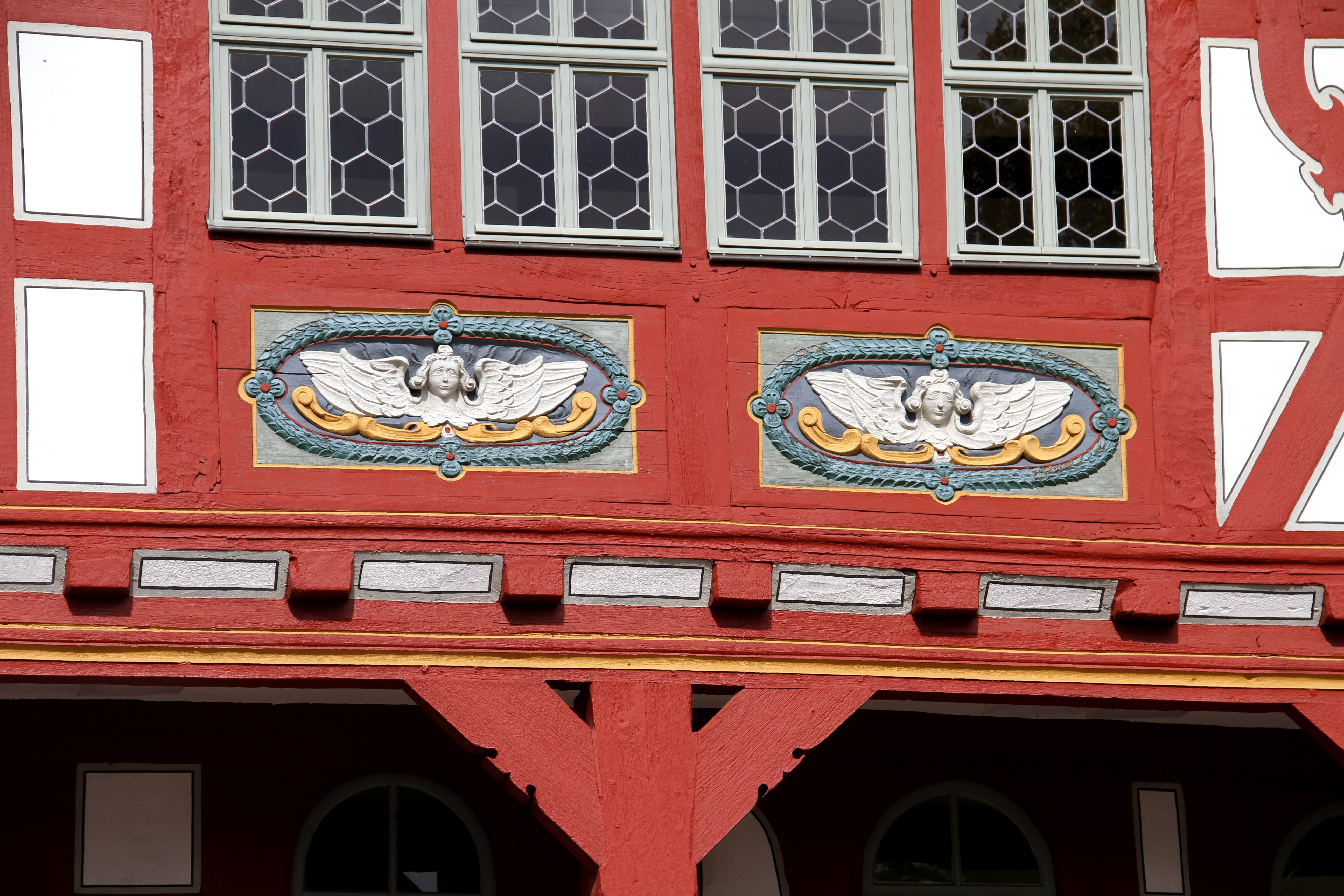 Facade of the Altes Rathaus (old town house) in Niederbrechen, Hesse, Germany